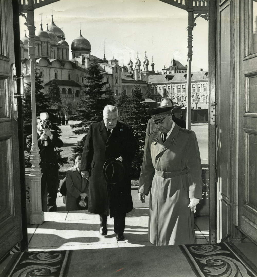 Archives New Zealand Reference: AEFZ 22625 W5727 2596 3102/0033 Material from Archives New Zealand Te Rua Mahara o te Kāwanatanga